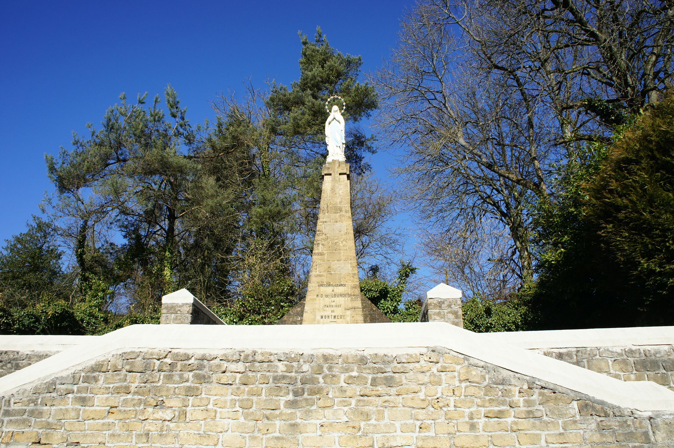 Statue of the Virgin Mary in Montmédy (Tivoli)